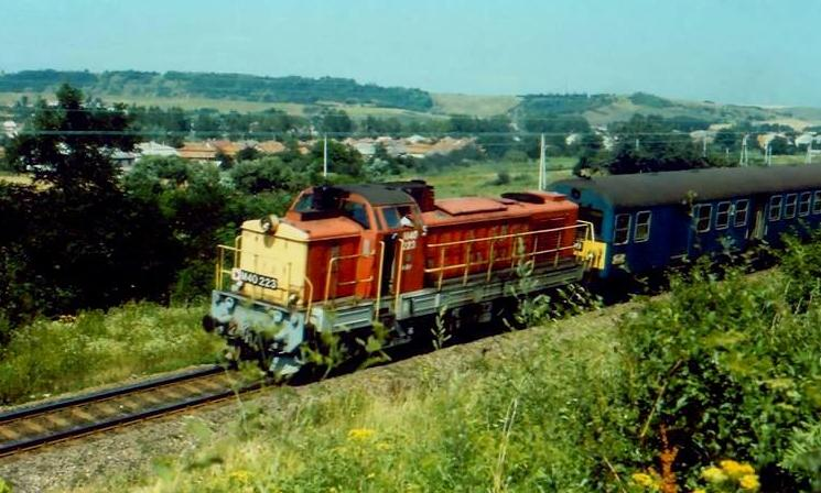 MÁV M40 Diesel locomotive in Hungary, near Pásztó, 1987